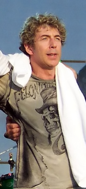 from Toto Moondance Jam concert 7/14/07. Photo by Matt Becker